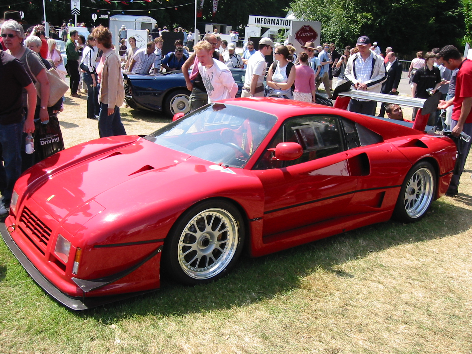 A 1987 Ferrari 288 GTO at the 2005 Goodwood Festival of Speed